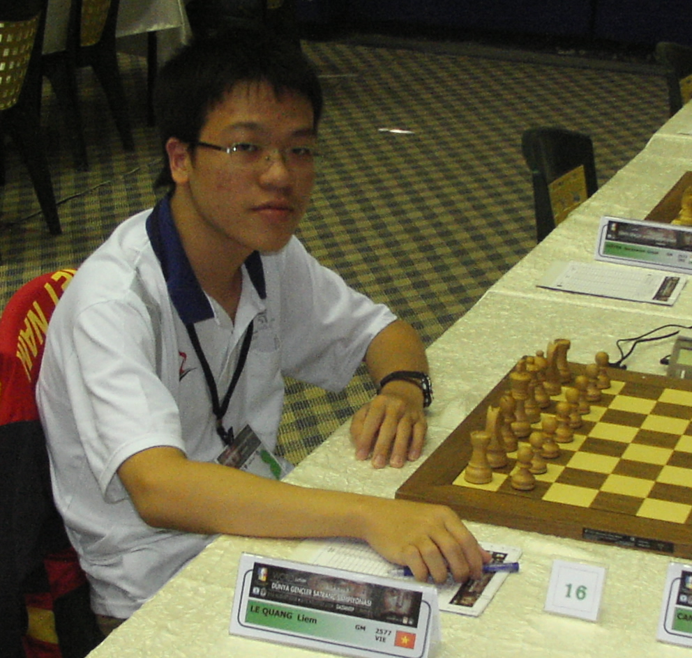 Lê Quang Liêm Vietnam, at the 2008 World Junior Chess Championship in Gaziantep, Turkey.